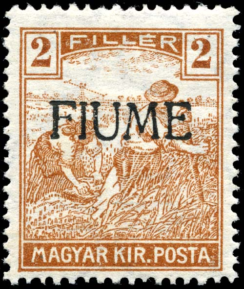 Fiume 2-filler overprint stamp of 1918